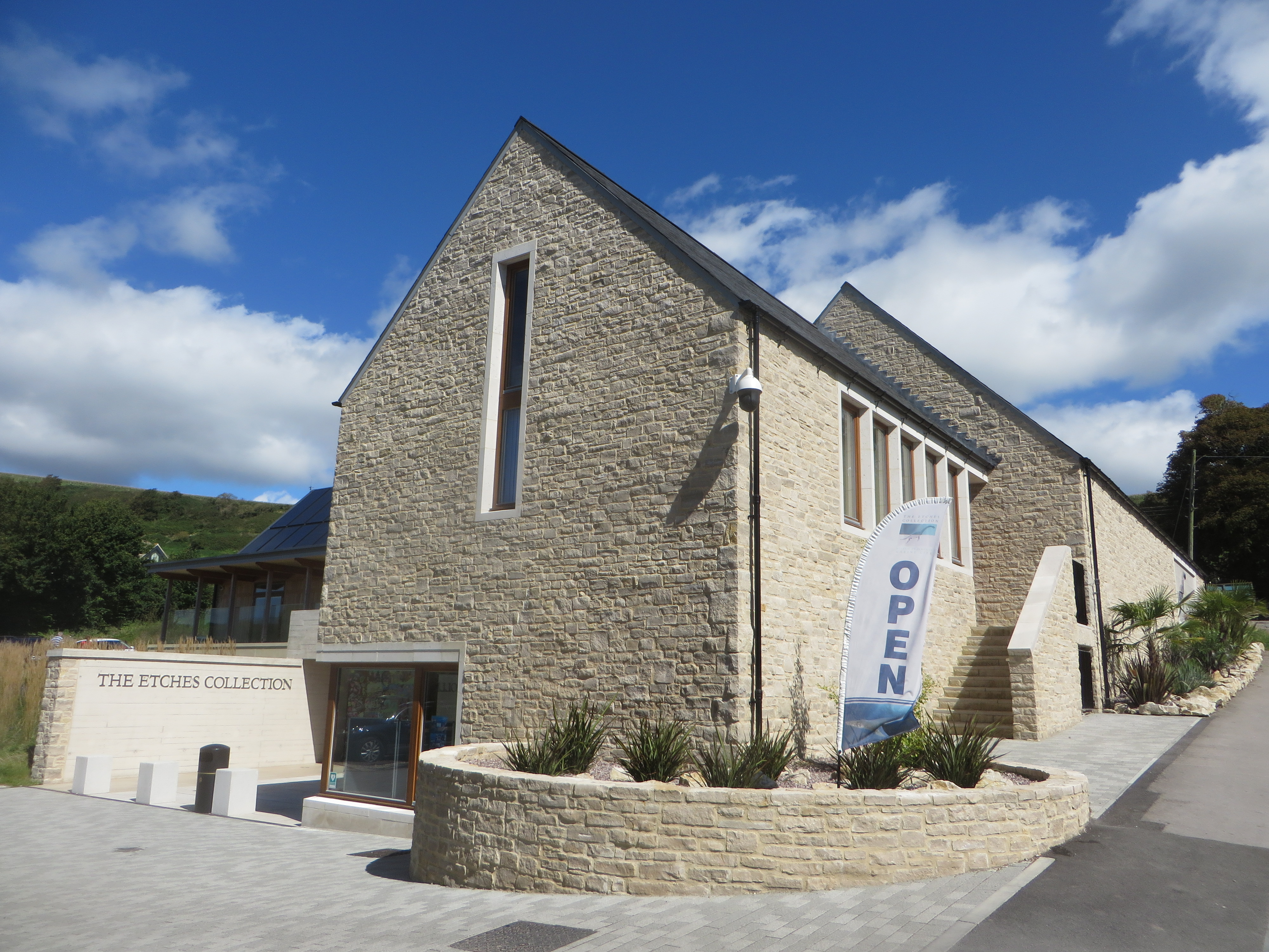 View of the building housing The Etches Collection, Kimmeridge, Purbeck, Dorset, England.